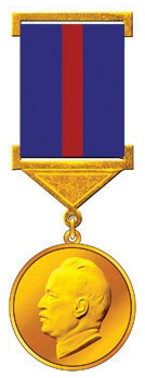 Commemorative medal «the Great Russian writer Nobel prize winner M.A.Sholokhov 1905-2005»